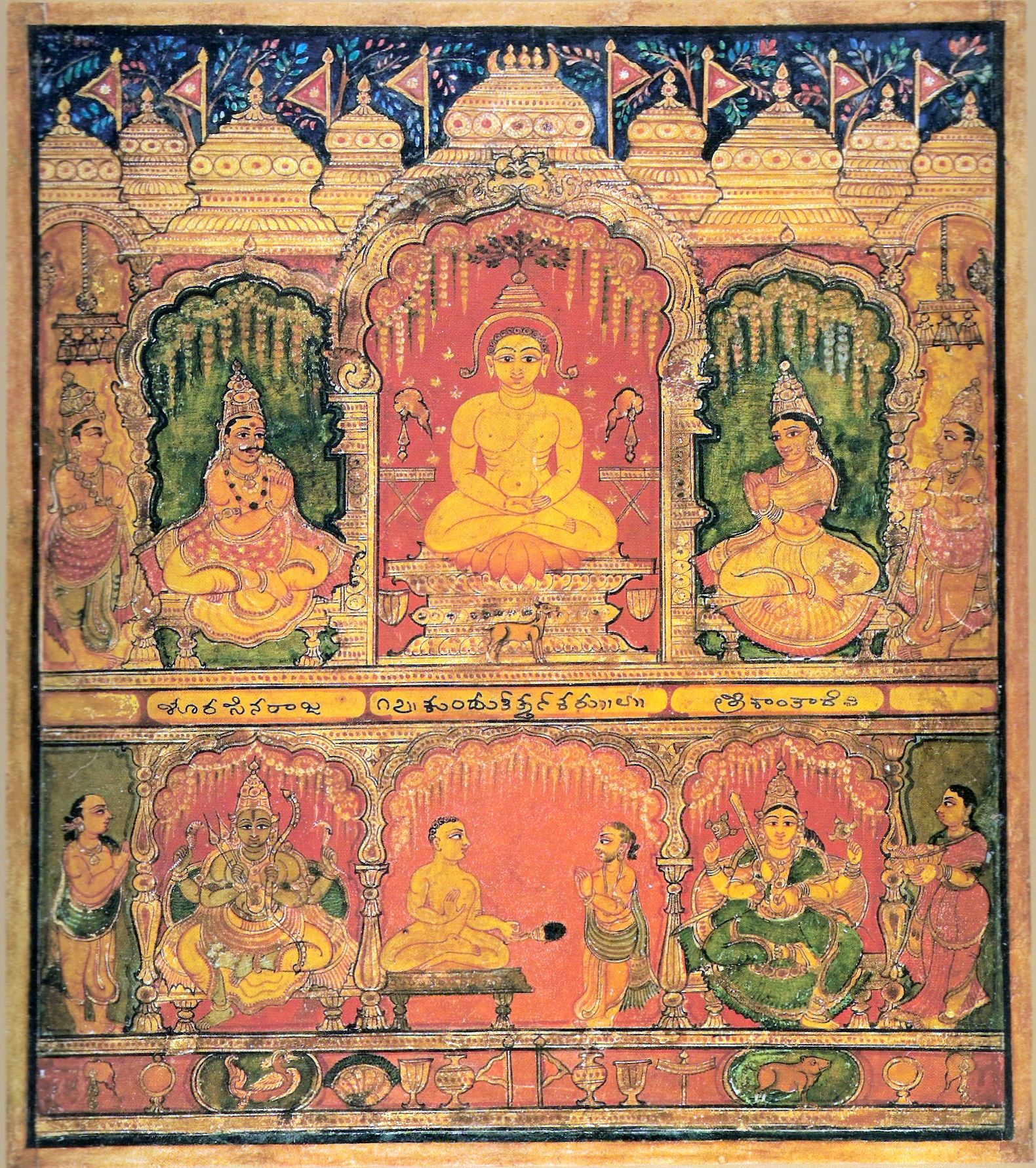 Painting from Mysore temple depicting Samosarana Worship of Tirthankara Kunthanatha c. 1825.